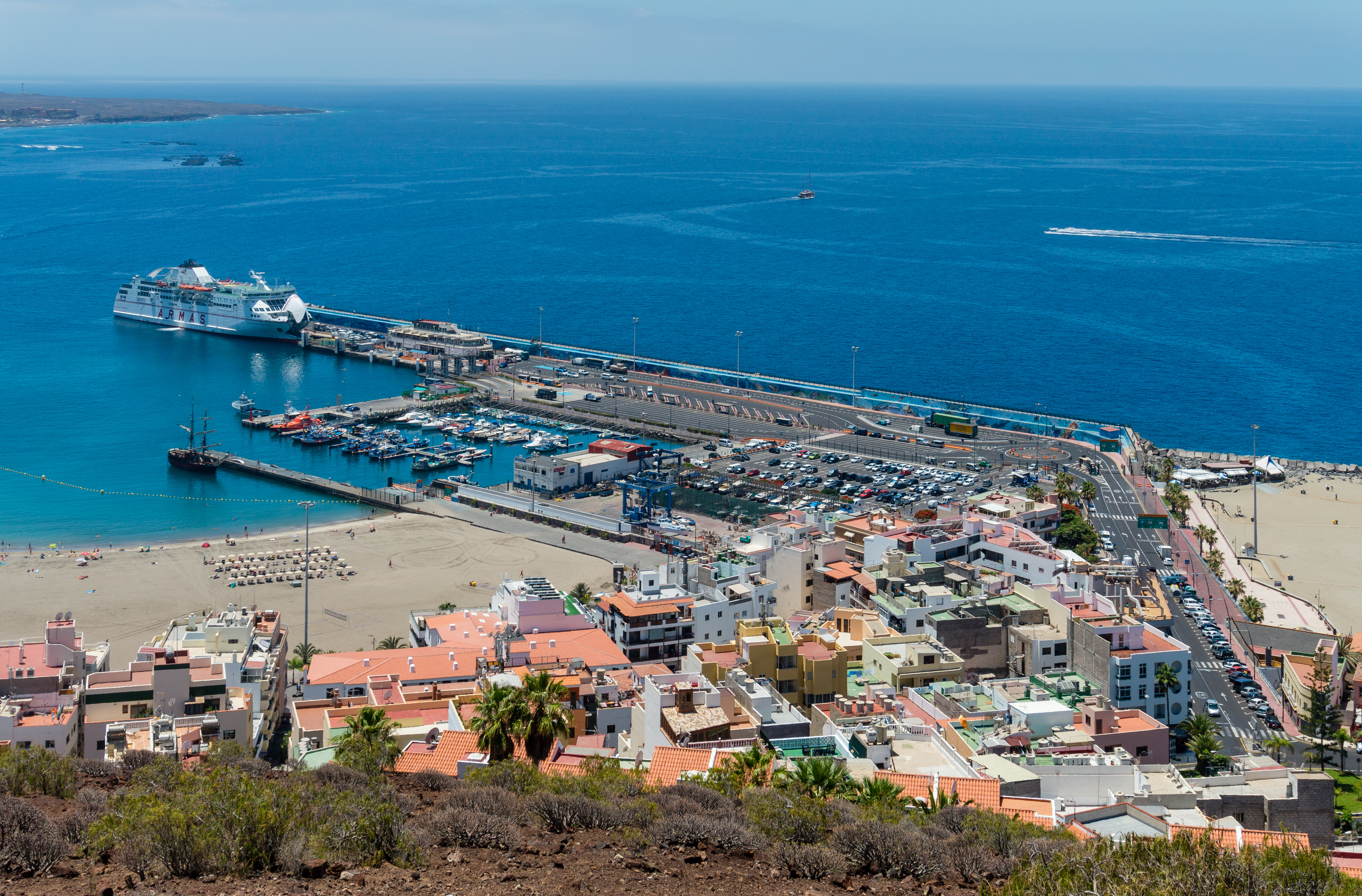 Habour of Los Cristianos photographed from the nearby hill Montaña Chayofita